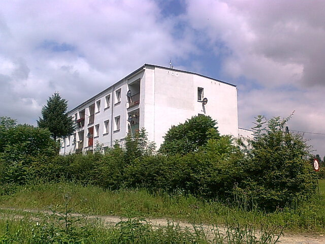 Babin (PGR houses), Lublin Voivodeship, Poland, July 2013